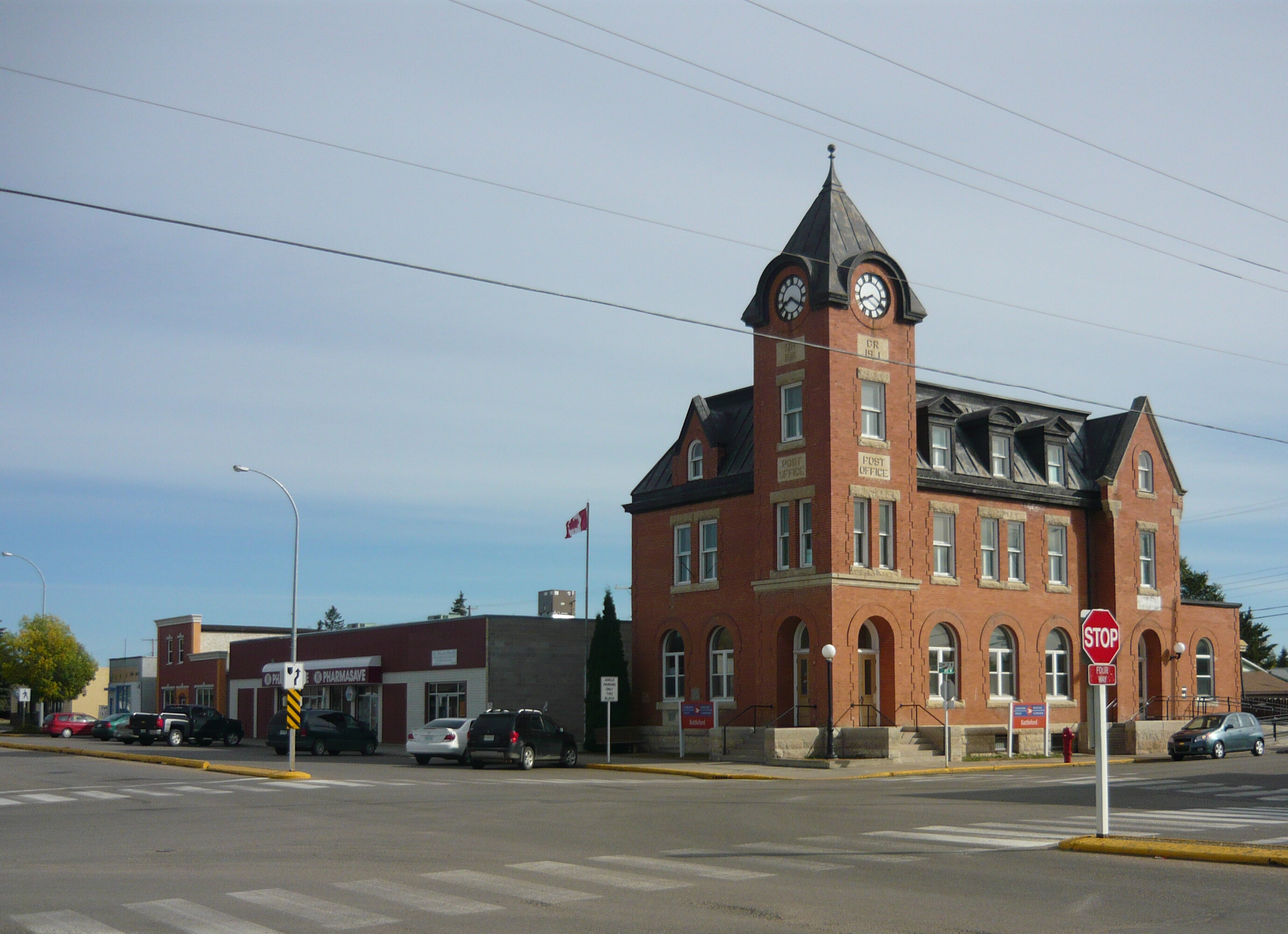 Post Office in Battleford, Saskatchewan, Canada, at 191 22nd Street (intersection of Second Avenue and 22nd Street).